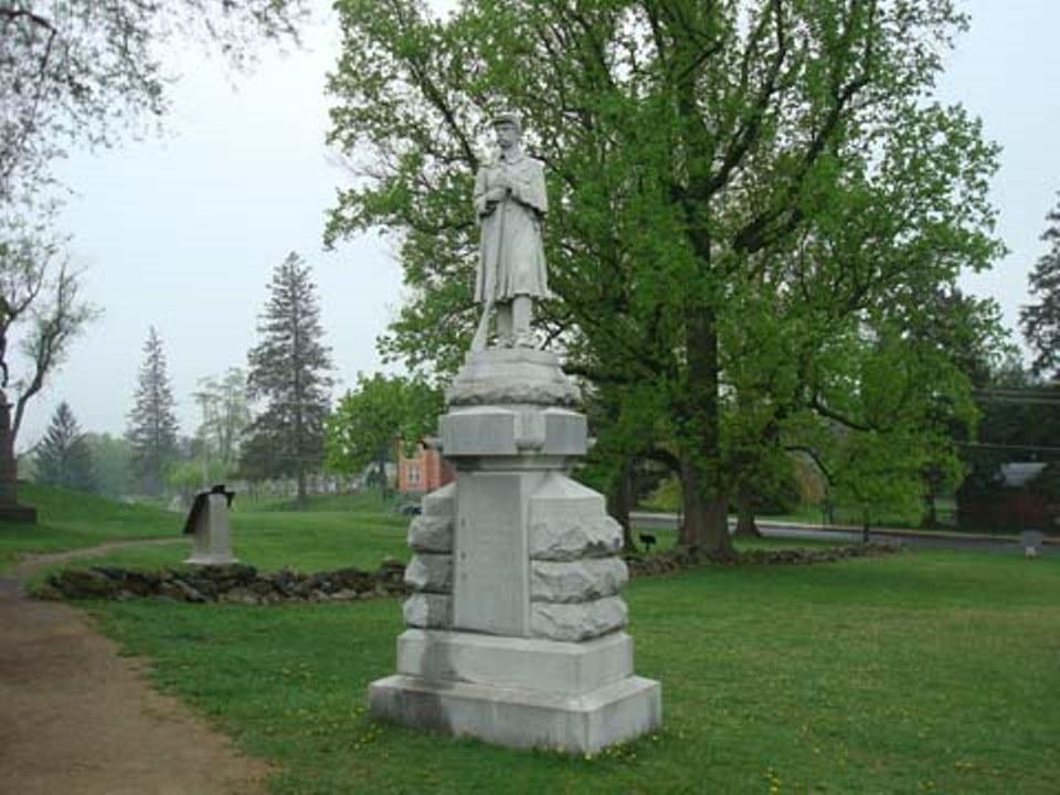 7th West Virginia Infantry Monument, East Cemetery Hill, Gettysburg Battlefield.